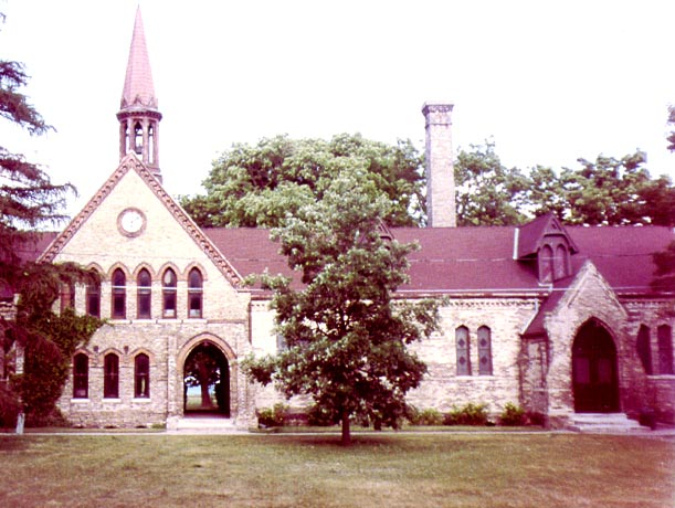 East Building (also known as Park Hall) of the old Racine College, now the DeKoven Foundation